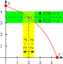 Example of continuous function. With delta characters.